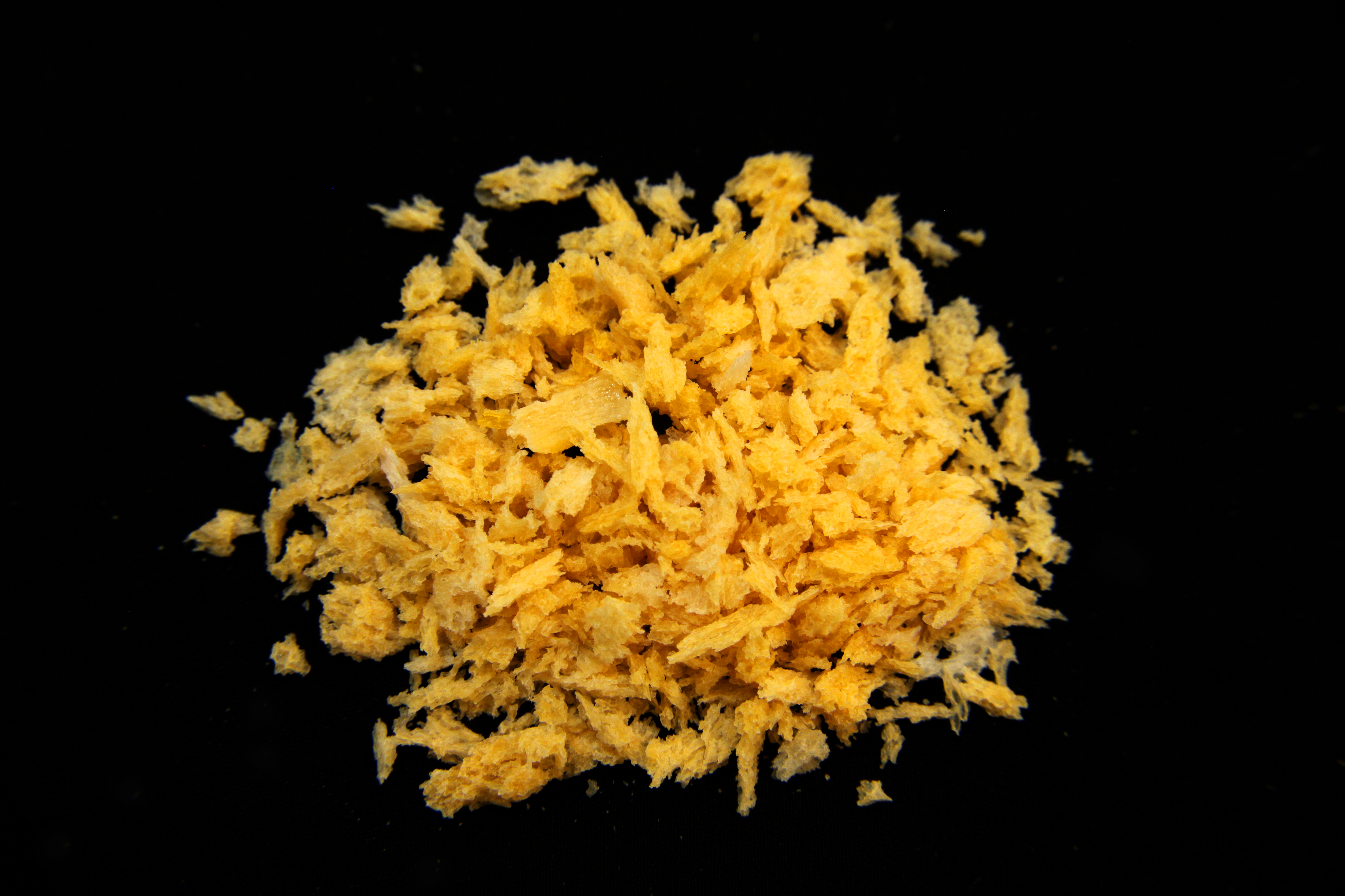 File name: 970610-IMG 7048-2-Panko-Paprika-4 Date: September 1, 2018 Thanks to Aftab Tejarat Negin (ATN) Company